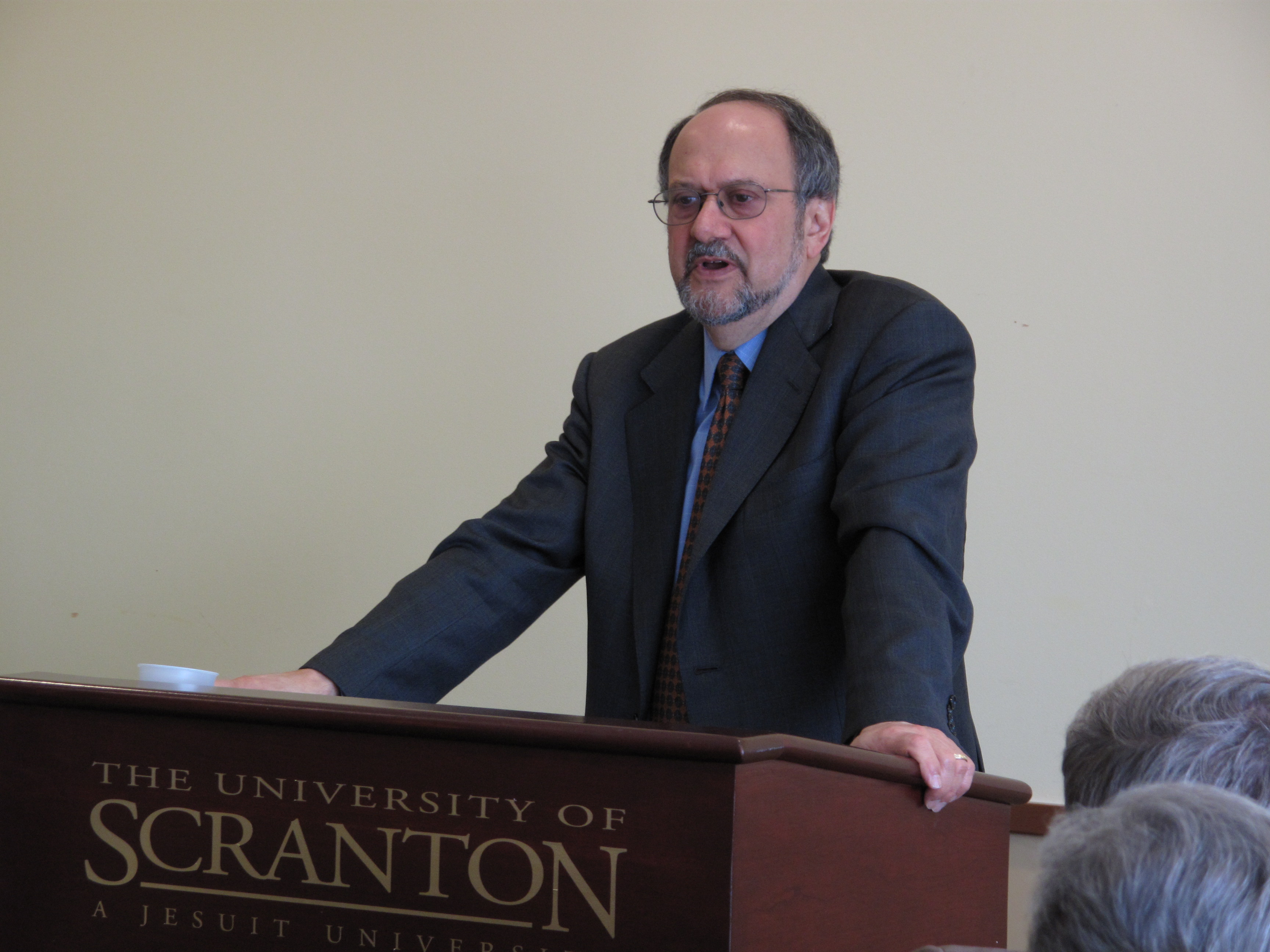 Robert Kuttner, an American journalist, writer, and economist